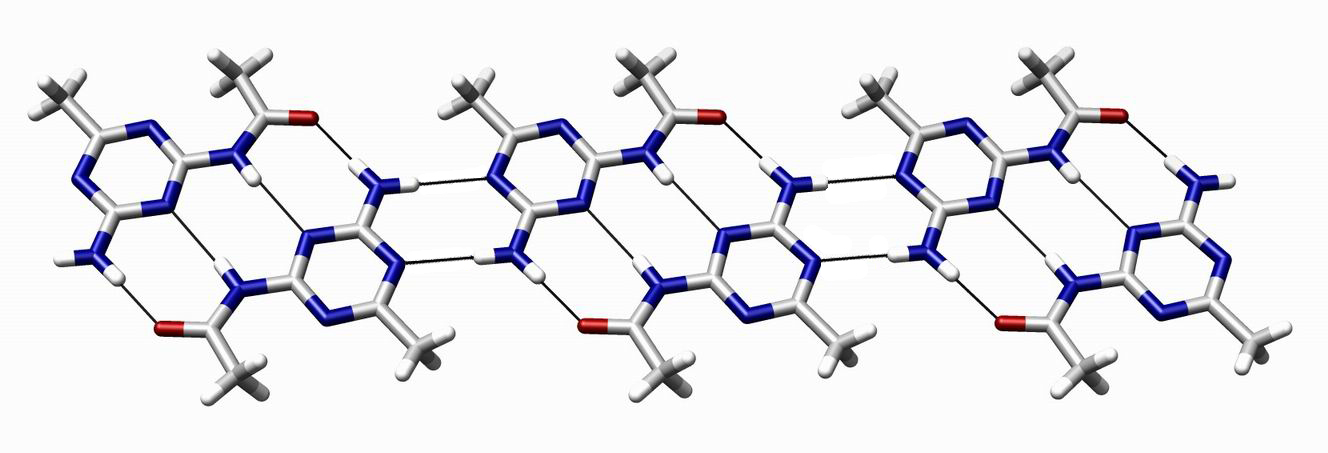 This is a picture generated from crystal structure data reported by Felix H. Beijer, Huub Kooijman, Anthony L. Spek, Rint P. Sijbesma, and E. W. Meijer in Angewandte Chemie International Edition, Year 1998, Volume 37, Pages 75-78. It shows molecules self-assembled through hydrogen bonds. Only six molecules are shown although the assembly continues indefitely. It was made by myself and is free to be use by all.